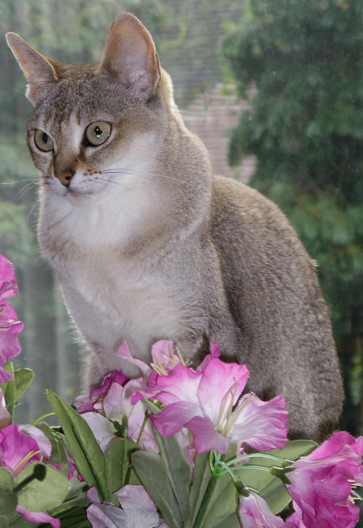 A singapura